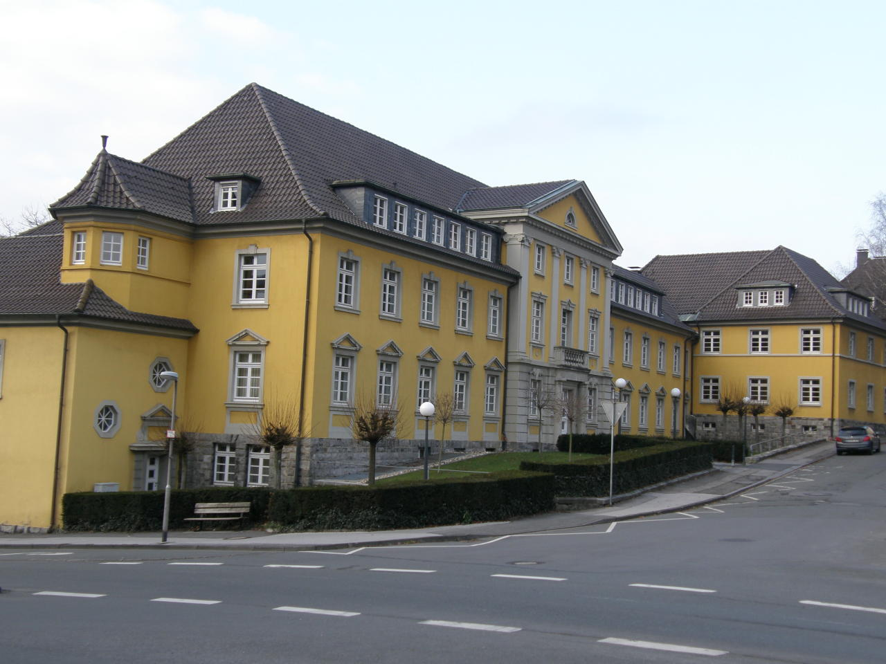 Former tax office Arnsberg This is a photograph of an architectural monument. 187